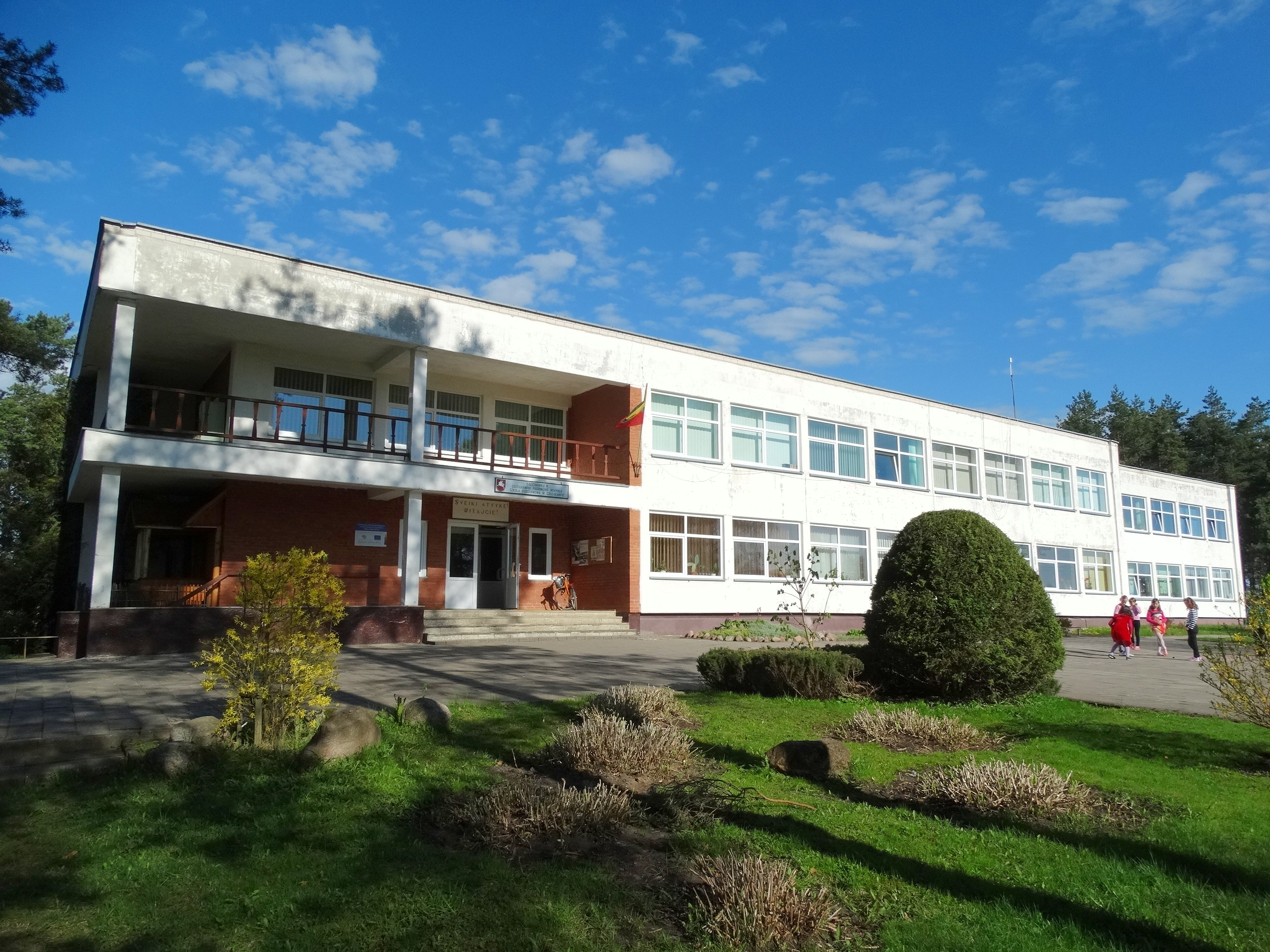 Basic school, Čiužiakampis, Šalčininkai District, Lithuania